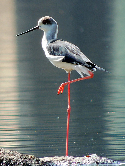 Long legged Black-winged Stilt Himantopus himantopus